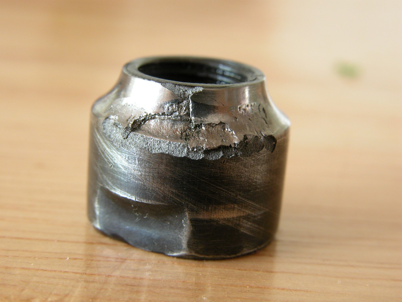 Made by self. Bike didn't break down completely, but something was awry, a peek showed this horror.